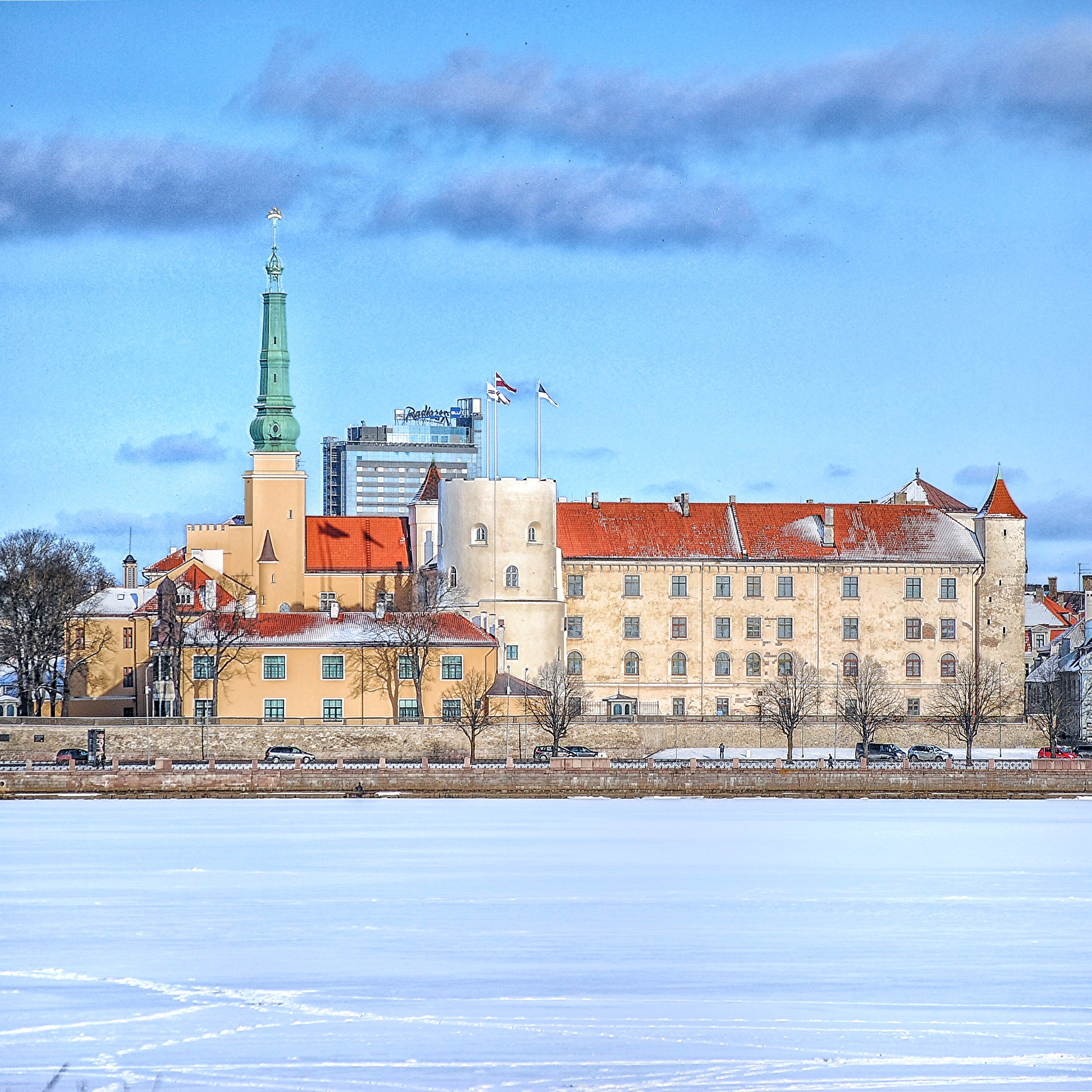 Riga castle in Riga, Latvia